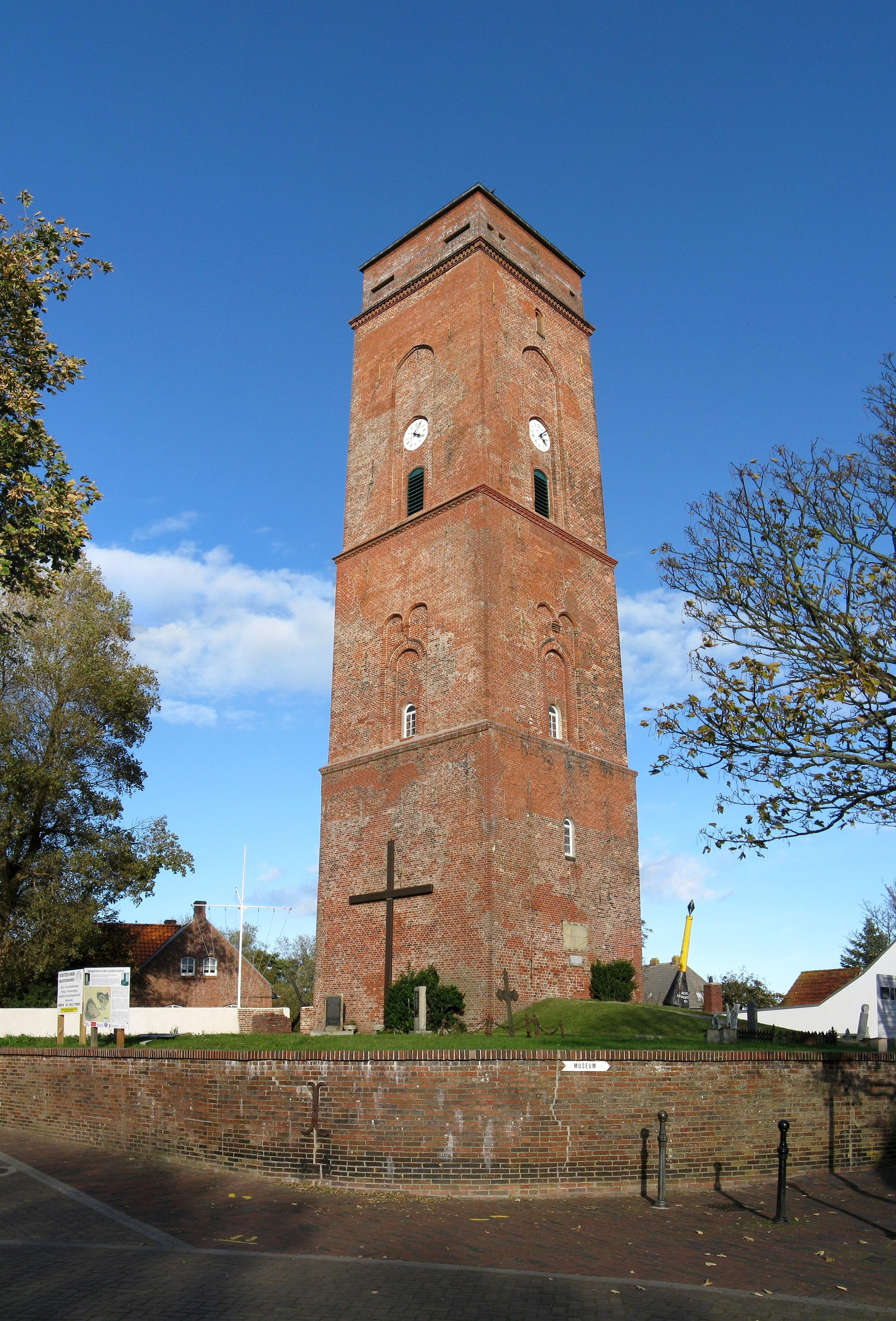 "Alter Leuchtturm" (old lighthouse) on the island of Borkum, Germany